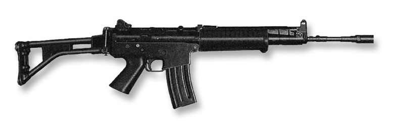 Right side profile view of the Pindad SS1 Assault Rifle